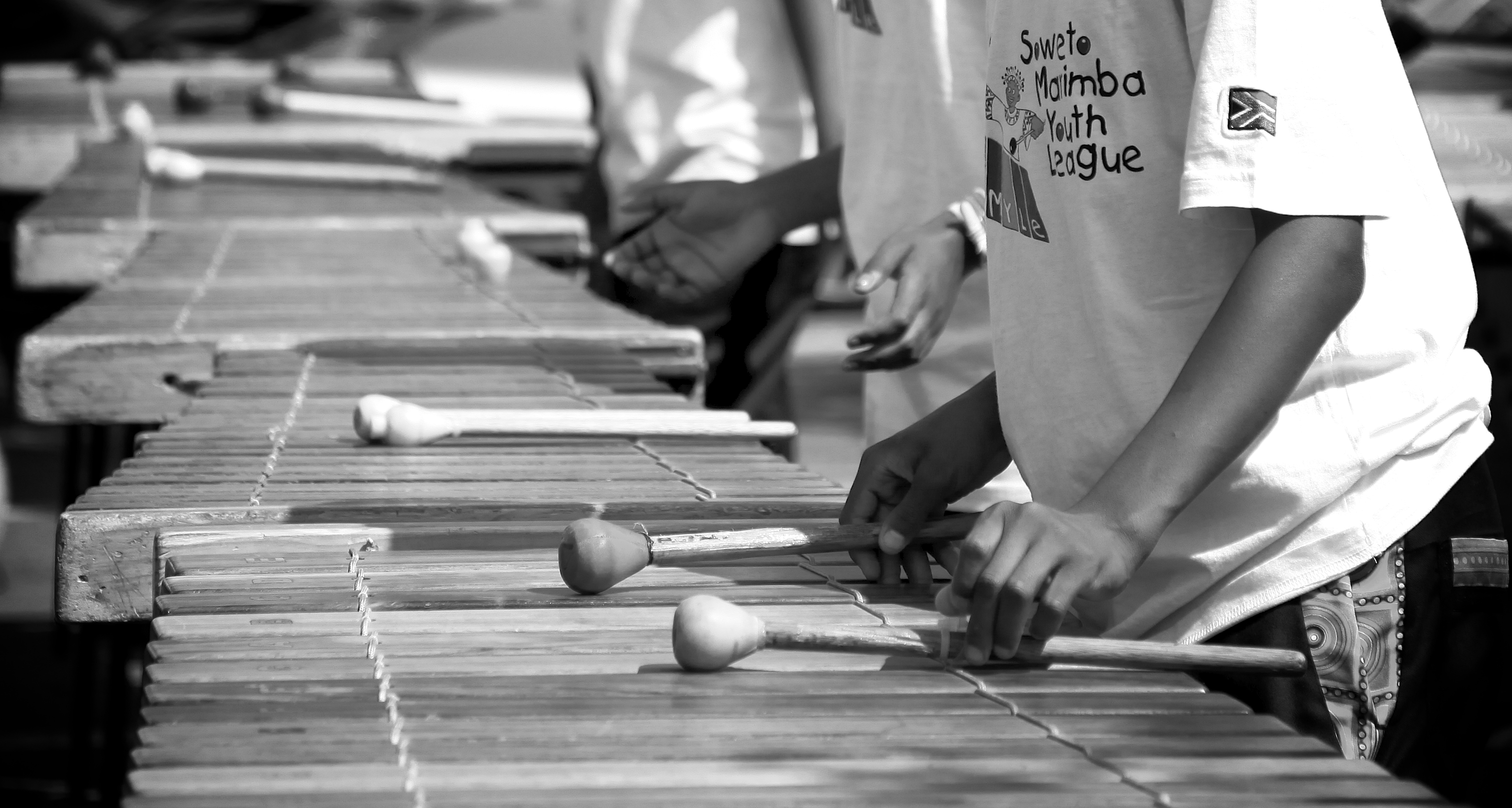 Soweto Marima Youth League during a public performance at Fourways Crossing, Johannesburg